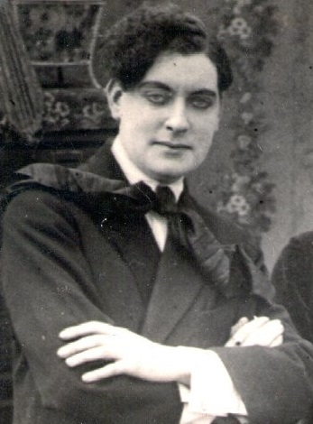 Jorge Lafuente-actor